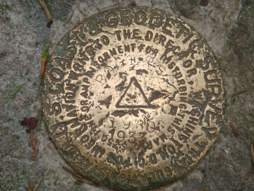 This is the U.S. Coast & Geodetic Survey Marker planted in rock at the summit of Mount Rogers. The marker is the point used to triangulate the location and elevation of Mount Rogers. This image was taken on April 29, 2007, by James Scott Ferrebee, Roy Perry, and Kaden Yealy.